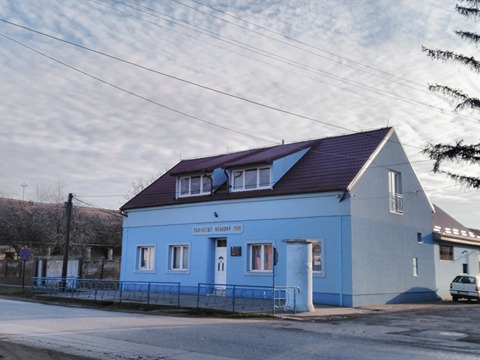 Slovak center in Šid, Vojvodina in Serbia.